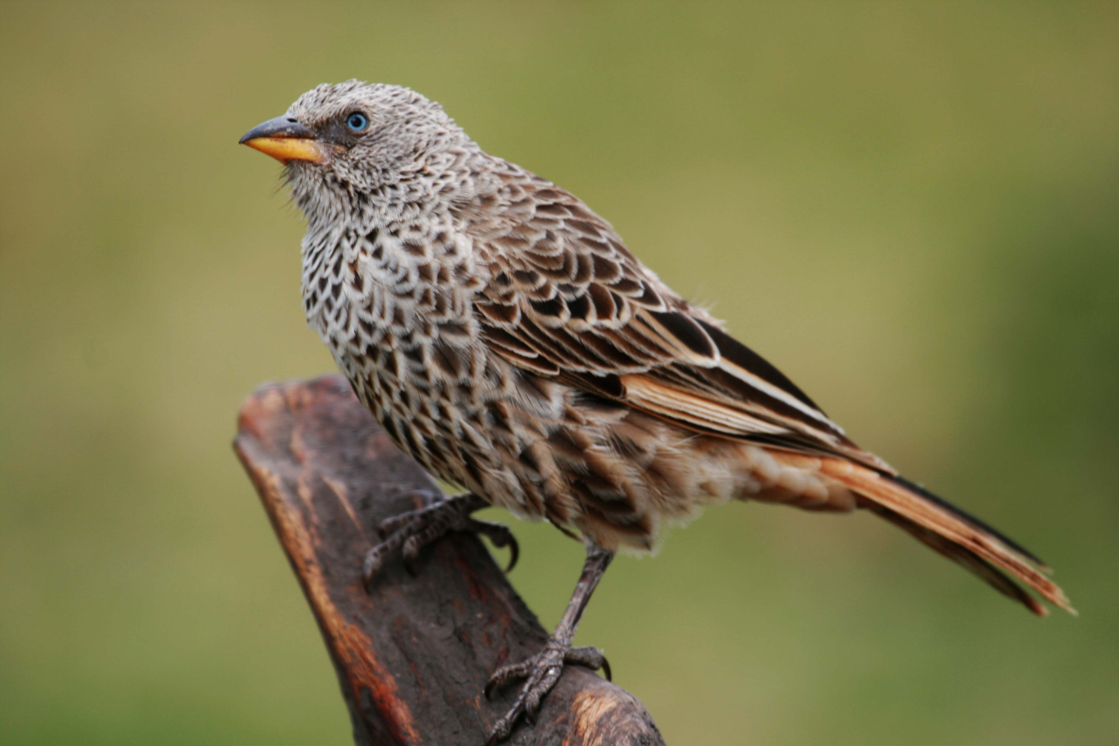 Rufous-tailed weaver. Ngorongoro Crater, Tanzania. Photo by Lee R. Berger